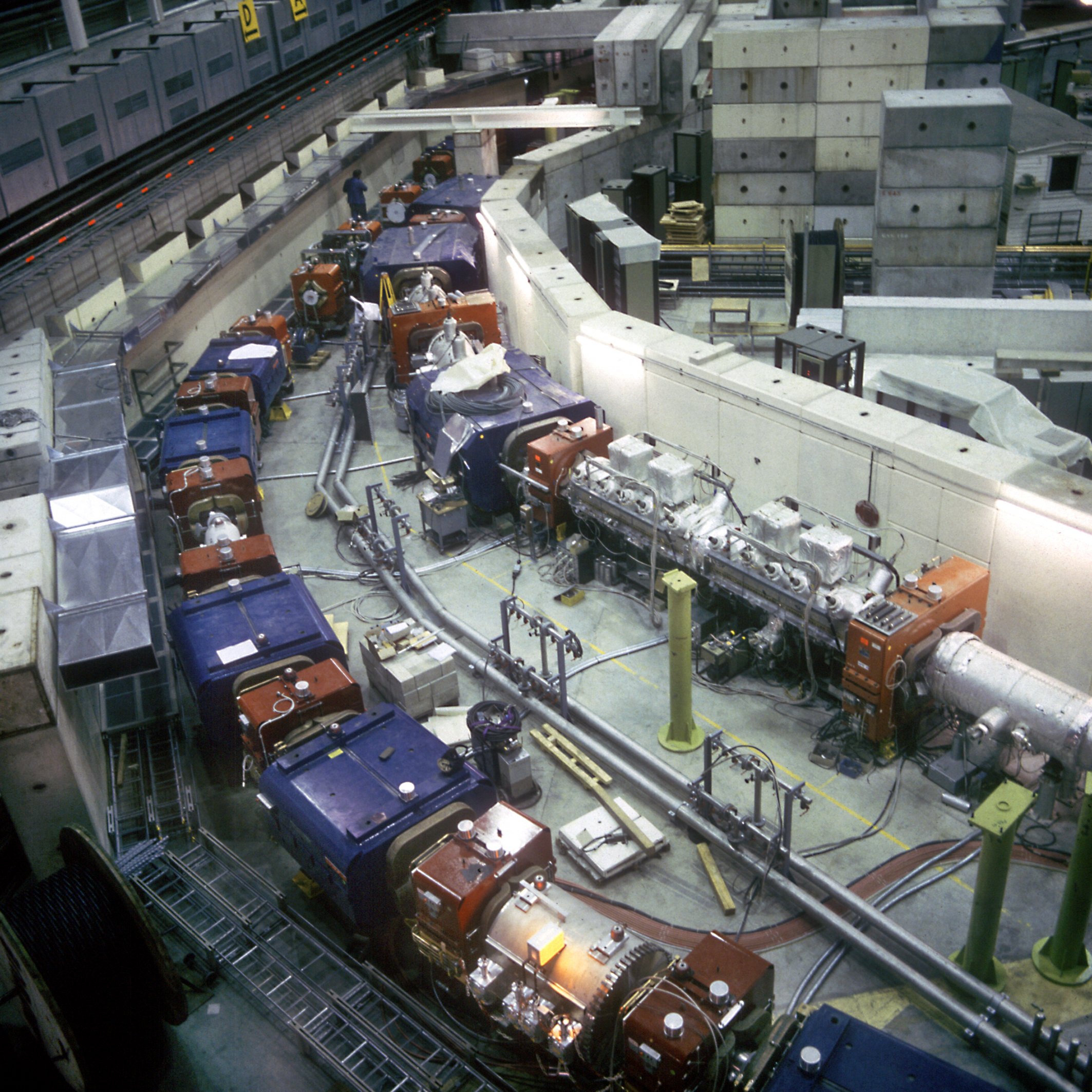 The picture shows the Antiproton Collector (AC) constructed around the Antiproton Accumulator. The blue devices are bending magnets (dipoles) and the red ones are focussing magnets (quadrupoles).